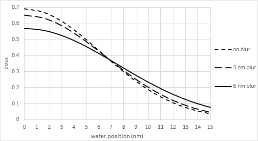 Low energy electron blur with a few nanometers range can alter the image contrast, i.e., the local dose gradient. Reference